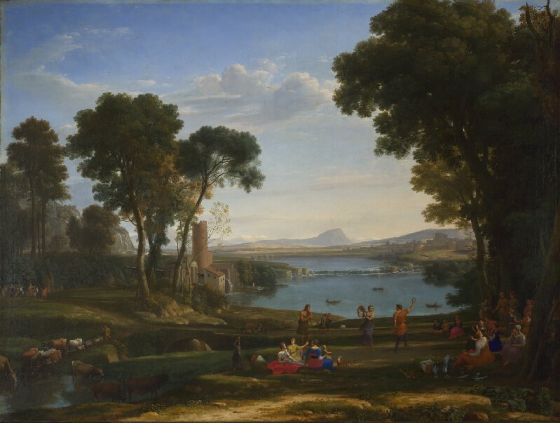 or Landscape with the Marriage of Isaac and Rebecca", NG 12 National Gallery Native nameNational GalleryLocationLondonCoordinates51° 30′ 31.33″ N, 0° 07′ 42.37″ W Established1824 Web .ukAuthority control : Q180788 VIAF: 144868906 ISNI: 0000 0001 2342 2001 ULAN: 500125190 LCCN: n80081622 NLA: 35311349 WorldCat institution QS:P195,Q180788